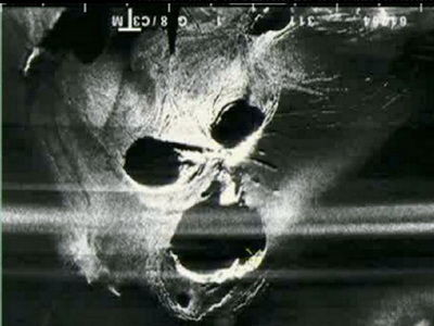 Radar satellite picture of ice cauldrons in Eyjafjallajökull during Eyjafjöll 2010 eruption, April 15 2010.